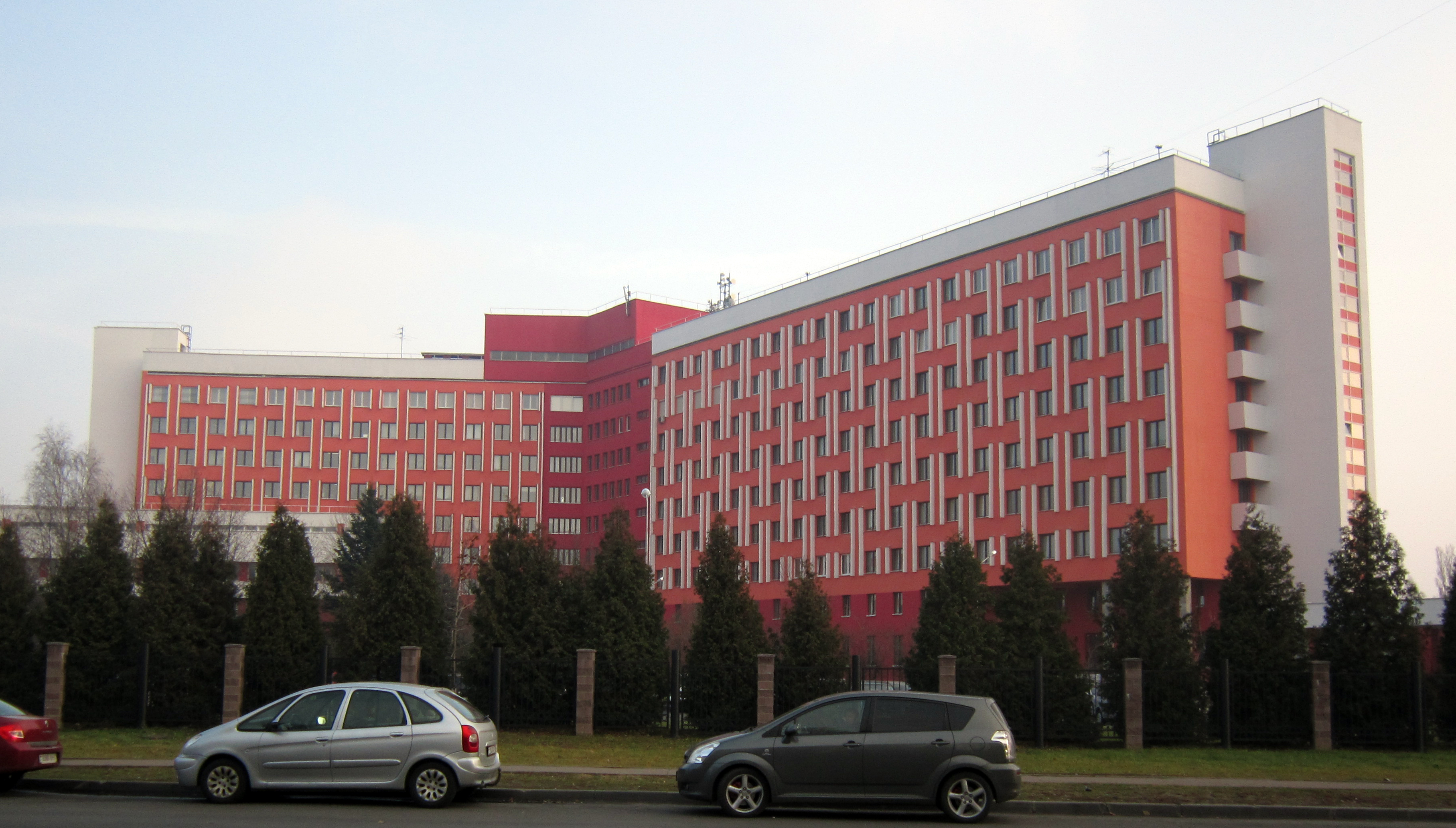 10th City Hospital in Minsk, Belarus